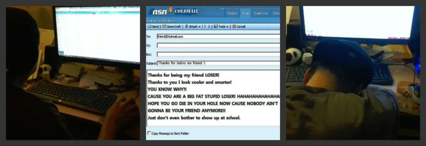 cyber bullying by email